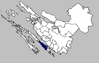 Self-made map of the Pašman municipality within the Zadar County.